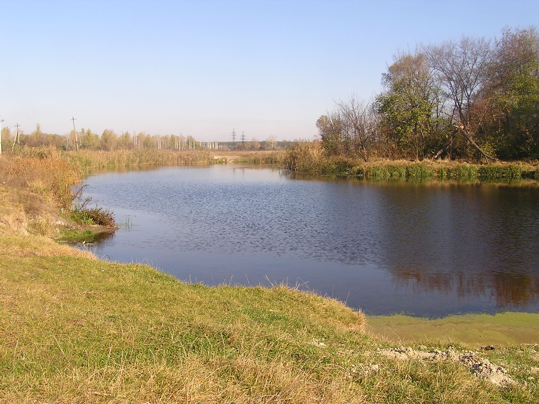 Kolomak River (Ukraine, Poltava)